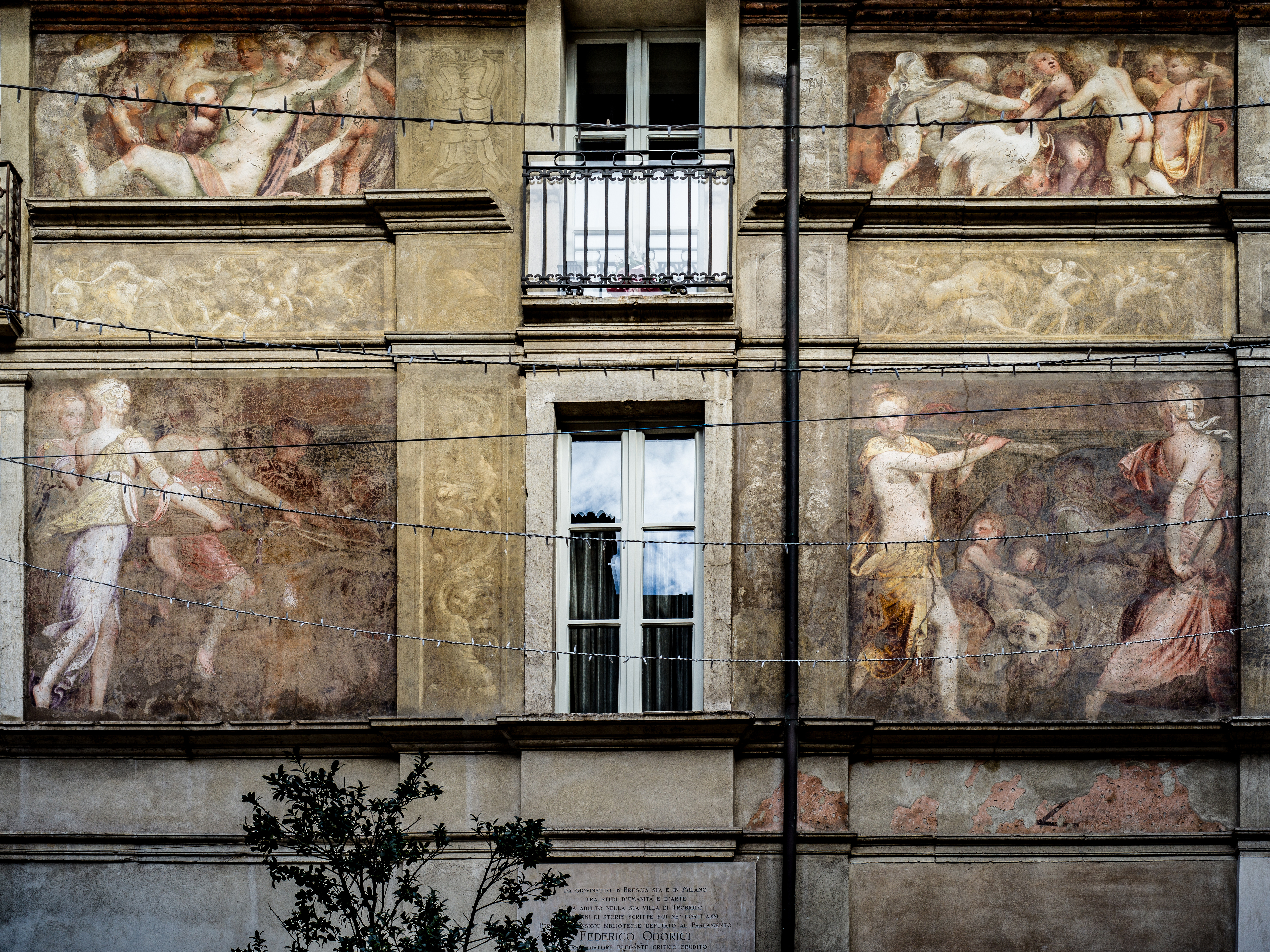 Frescos by Lattanzio Gambara on Corso Palestro street in Brescia.